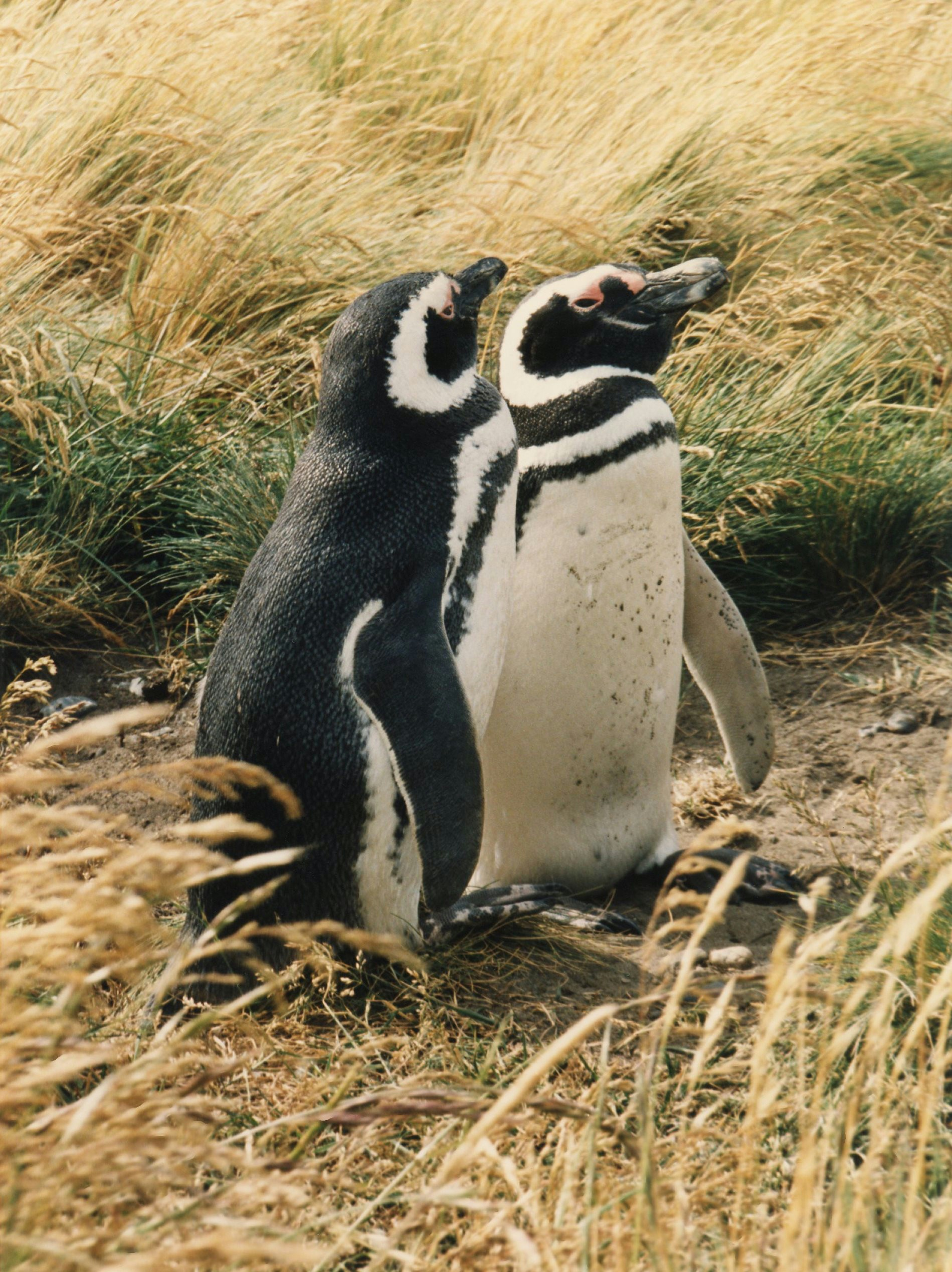 Magellanic Penguins, near Punta Arenas, Chile